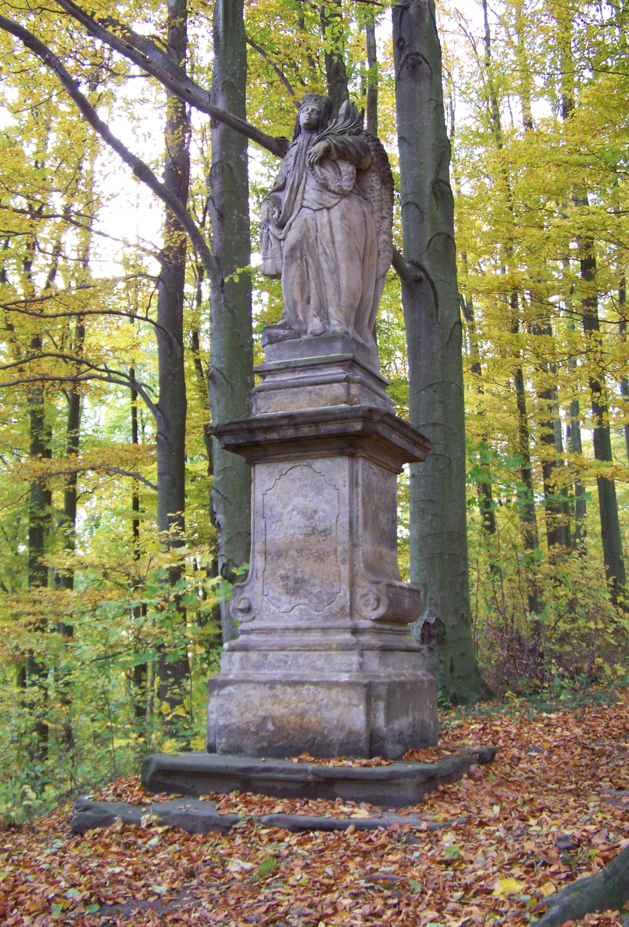 Saint Ludmila statue near Houska Castle, Česká Lípa District, Liberec Region, the Czech Republic. - Google Maps - Google Earth